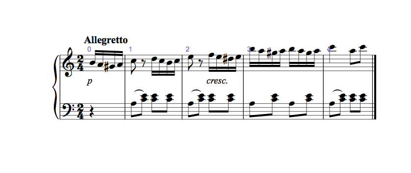 The first five bars of Mozart's Rondo Alla Turca